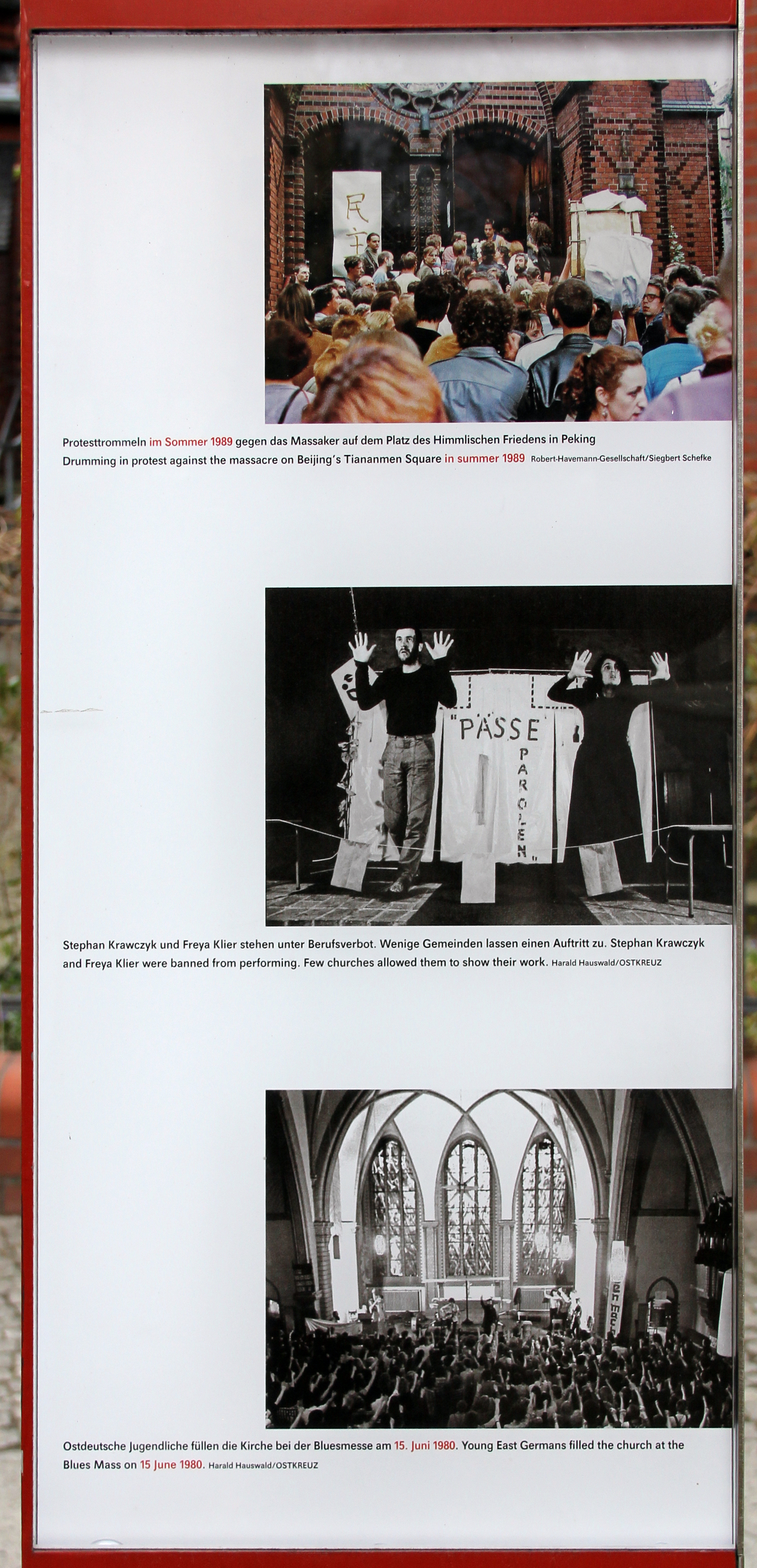 Memorial plaque, Friedliche Revolution, Samariterplatz, Berlin-Friedrichshain, Germany